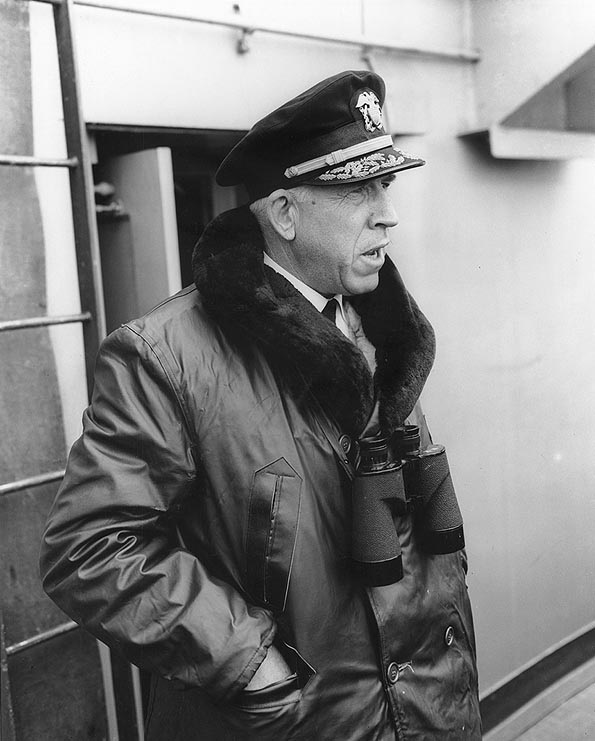 Rear Admiral John L. Hall, Jr., USN, Commander Task Force 124, the "Omaha" Beach Assault Force. On board USS Ancon (AGC-4) during the Normandy invasion, June 1944.